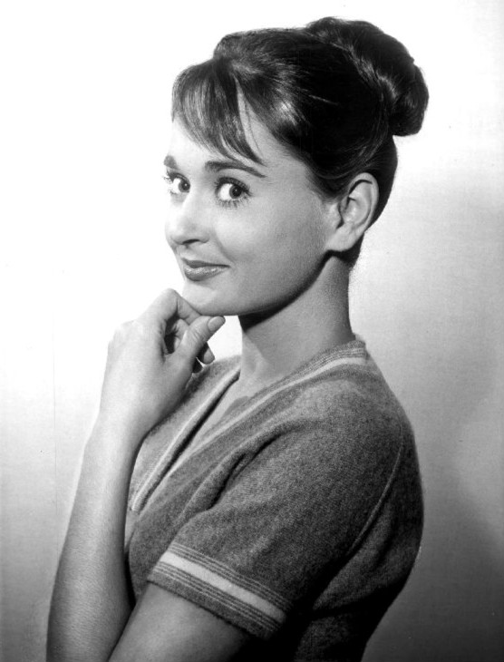 Photo of Roxanne Berard from a guest appearance on the television program Markham.